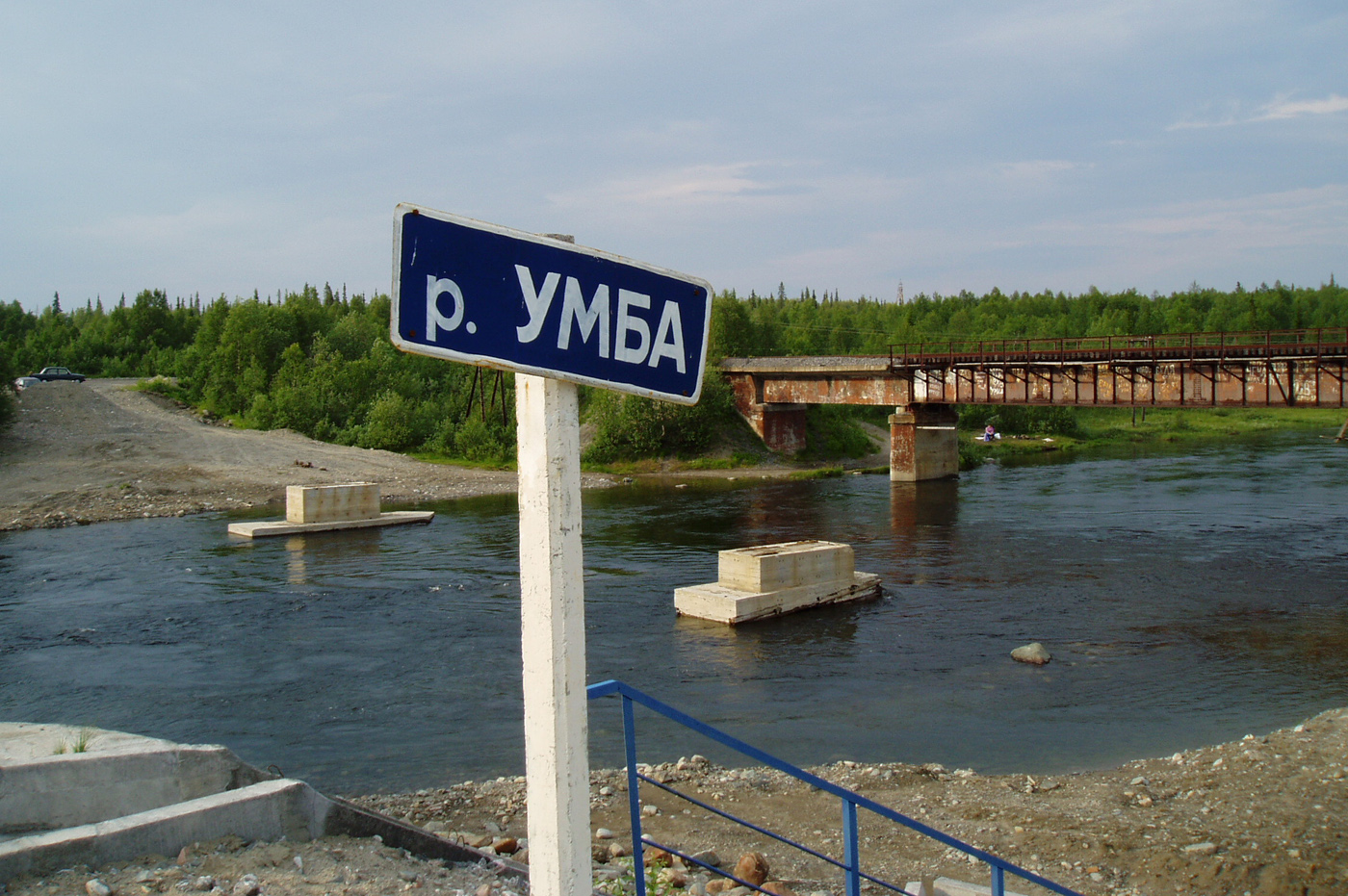 Umba bridge